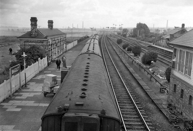 Bagillt Station, Near to Bagillt, Flintshire/Sir y Fflint, Great Britain. SE from A548 bridge towards Chester, with an Up stopping train at Up Slow line platform; four-track Chester - Holyhead main line. Note there are platforms only on the Slow lines; signalbox on right. Shotton Steelworks on horizon.